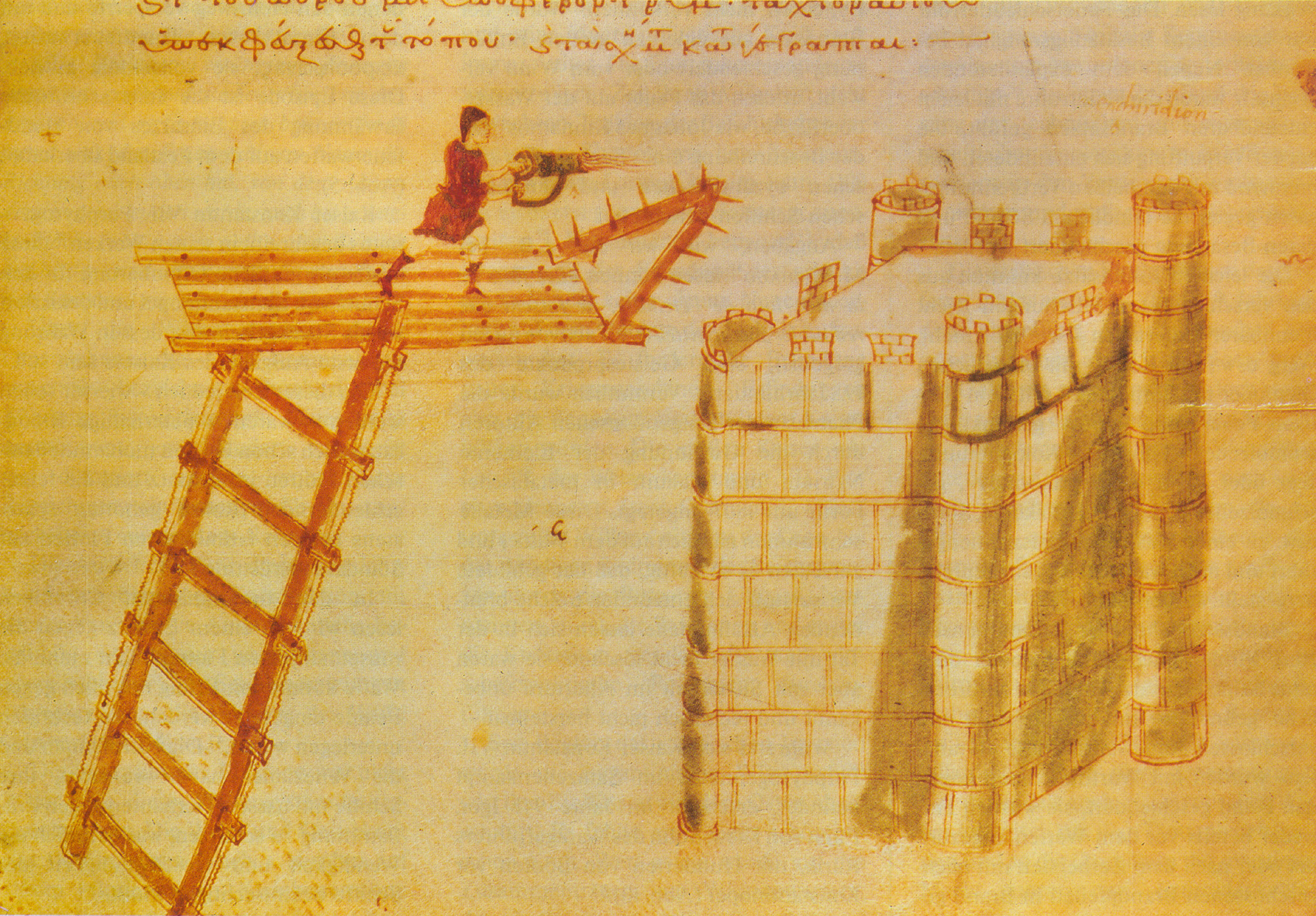 Use of a hand-siphon, a portable flame-thrower, from a siege tower equipped with a boarding bridge against the defenders on the walls. Medieval illumination in the manuscript Codex Vaticanus Graecus 1605.